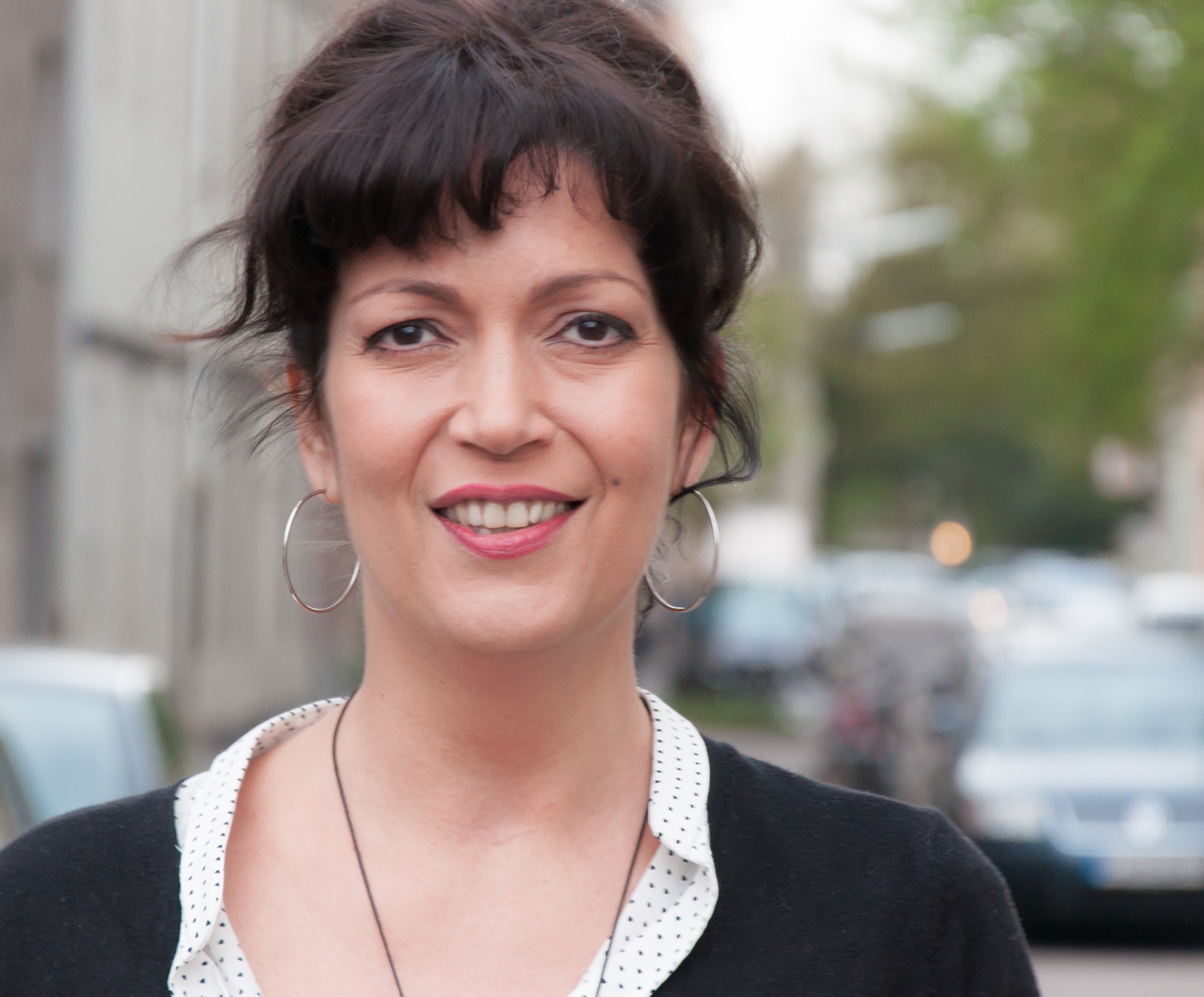 Arzu Ermen, German actor